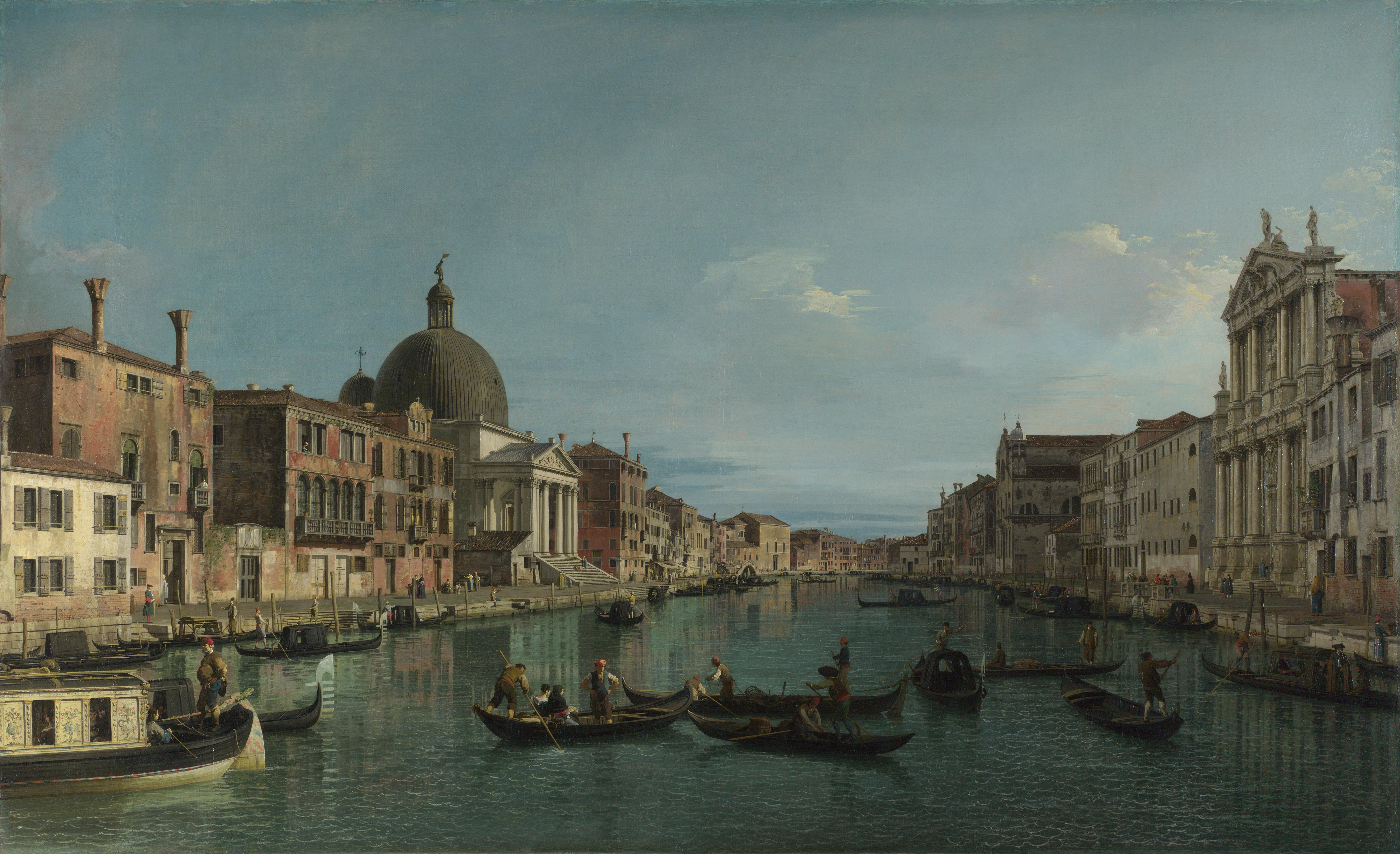 Looking North-West from the Ponte degli Scalzi to the Fondamenta della Croce (left side in the background), with Chiesa degli Scalzi (right) and San Simeone Piccolo (left); one of Canaletto's most carefully conceived and executed large pictures, with control of lighting and perspectival effects and incidental details. The domed 18th-century church of S. Simeone Piccolo (SS. Simeone e Giuda), was rebuilt by Scalfarotto and consecrated in 1738.